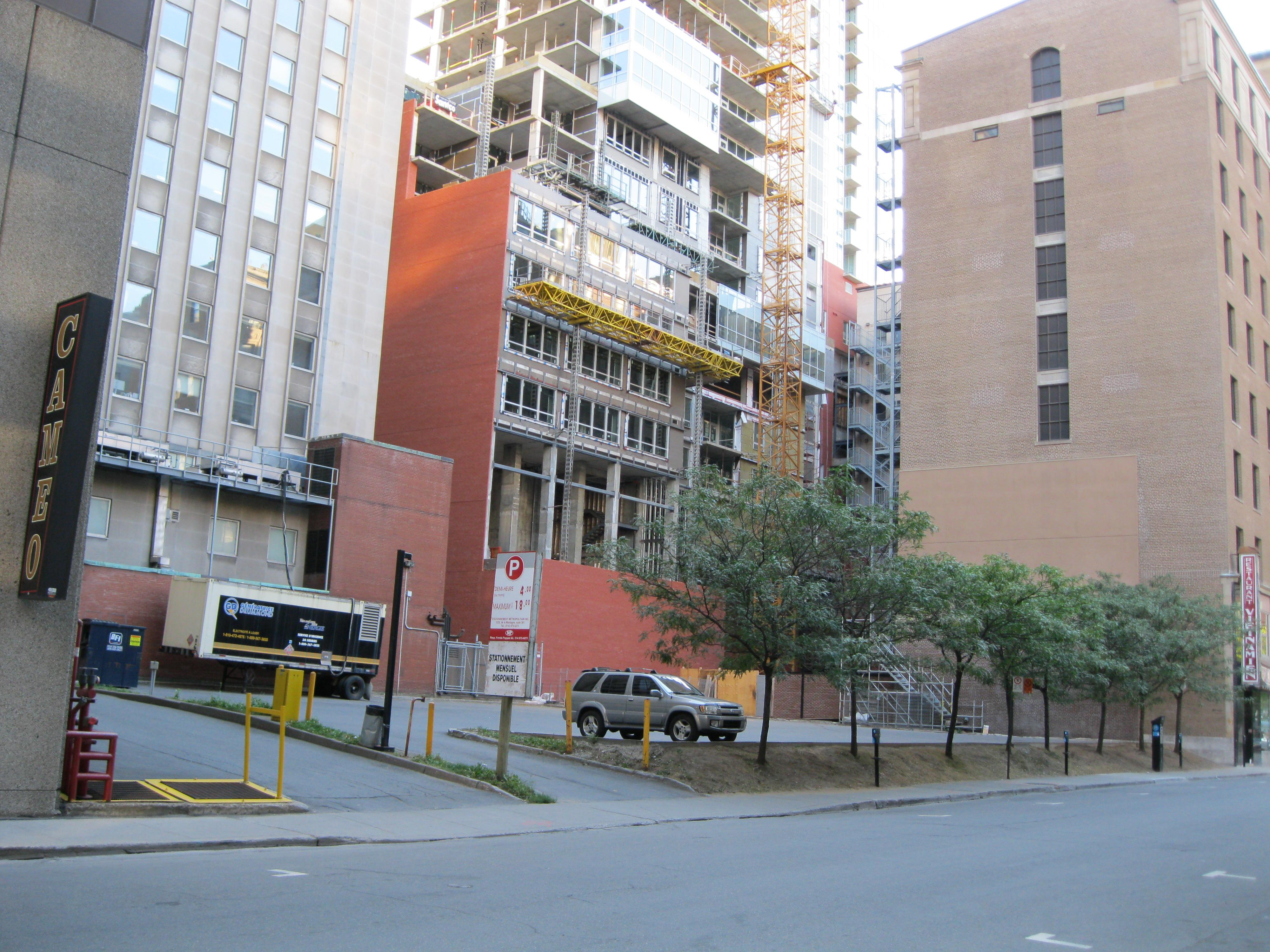 Parking lot at the site of the "Blue Bird – Wagon Wheel Café" on the west side of Union Avenue, south of Cathcart Street and north of René Levesque Boulevard